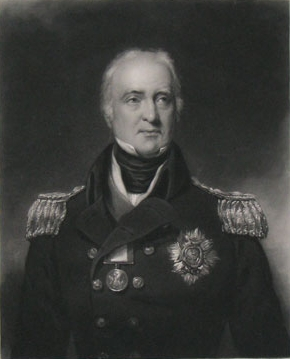 Mezzotint of Sir Pulteney Malcolm.